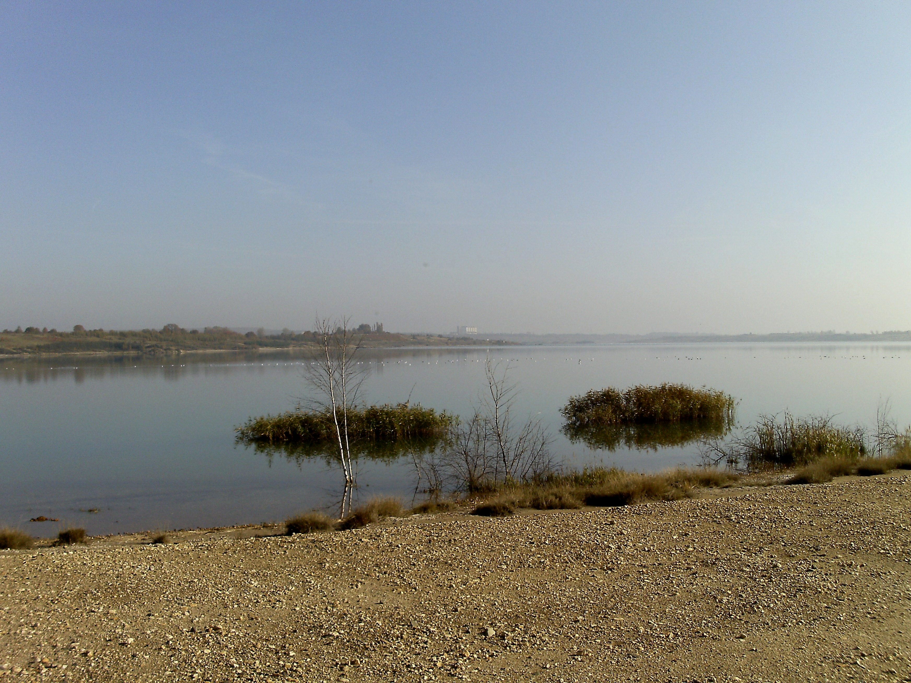 Hain Lake, a new lake at the place of an old opencast mine in the "Neuseenland" of Leipzig district (Saxony)